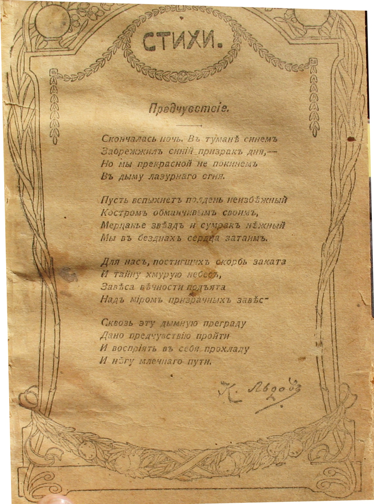 Russian poet Konstantin Ldov signature on his poem. 1914